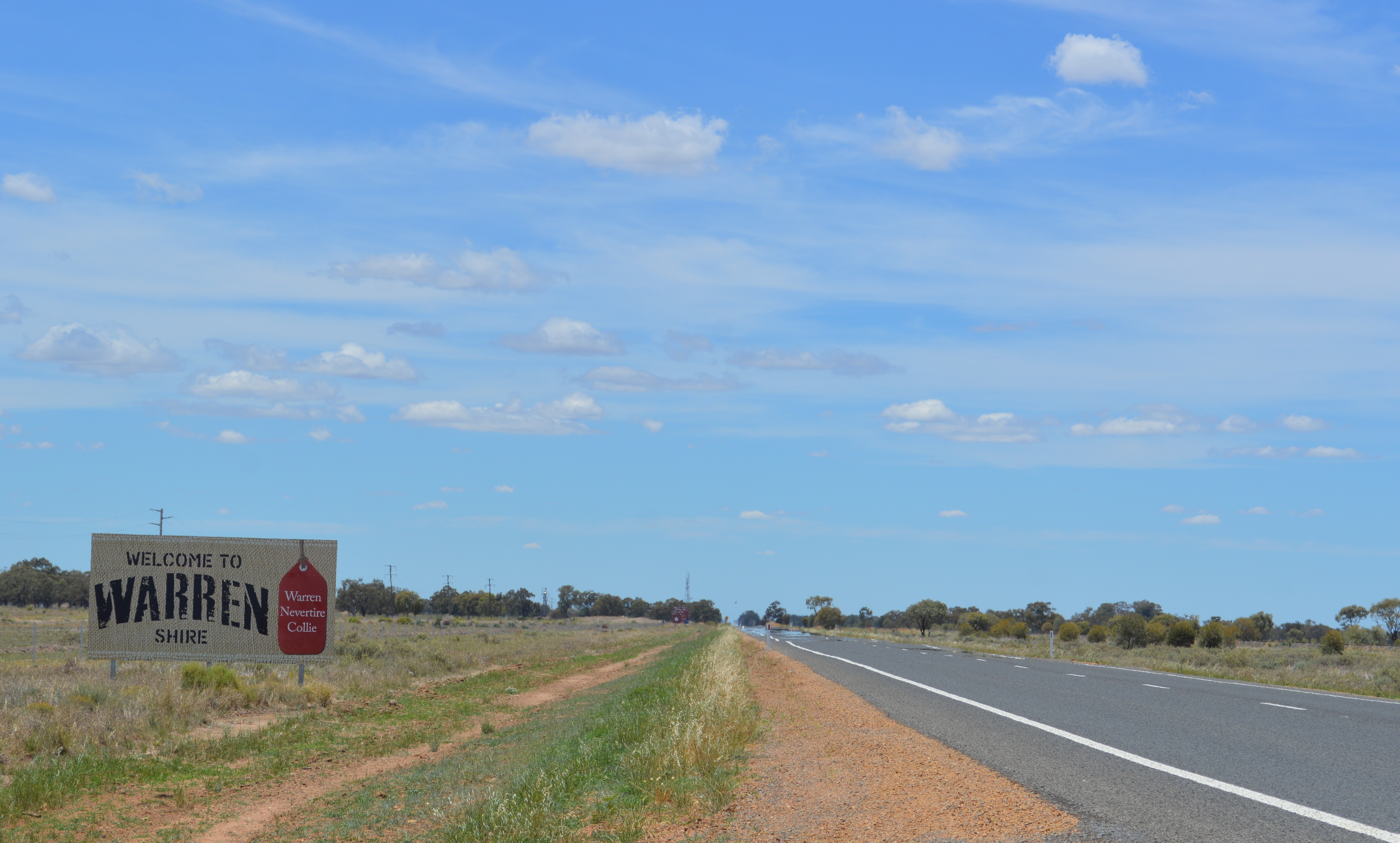 Municipal boundary sign for Warren Shire, west Nevertire, New South Wales on the Mitchell Highway